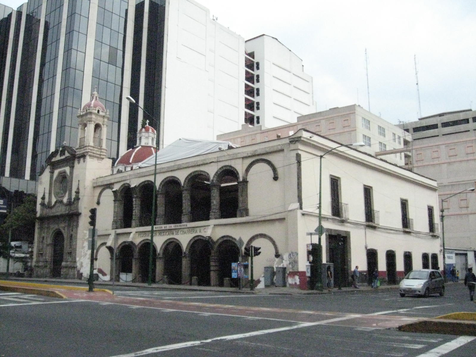 The Mexican Charreria Federation (Federacion Mexicana de Charreria) building located at the corner of Izazaga and Isabel la Catolica street in the Centro of Mexico City